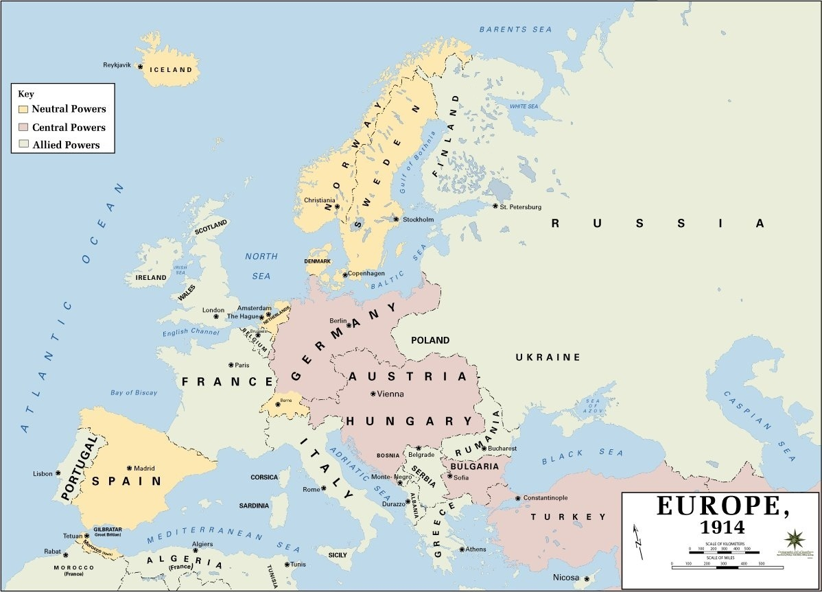 A map of Europe in the year 1914, based on The Department of History at the United States Military Academy map. Fixes the erroneous depiction of Finland being an independent nation in 1914.